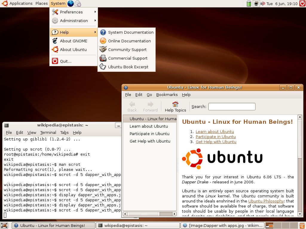 Showing Ubuntu 6.06 Dapper Drake with terminal window and "About Ubuntu" open, and displaying the Help menu.